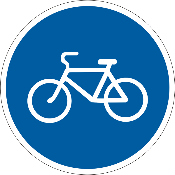 Bicycle path.